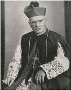 Bishop David Francis Hickey of Belize, CA